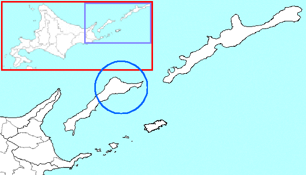 The location of Ruyobetsu in Nemuro Subprefecture, Hokkaido Prefecture, Japan.